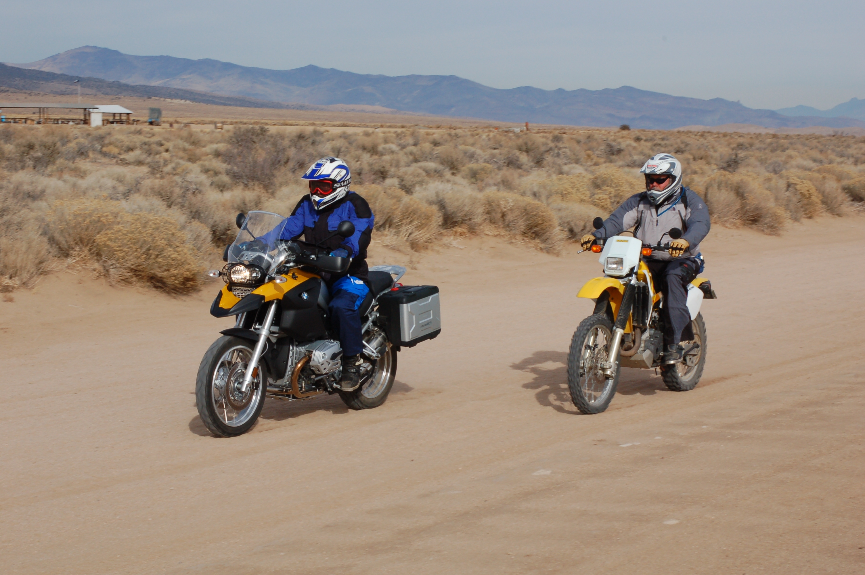 Dual sport motorcycles, BMW 1200 GS, Suzuki DRZ 400